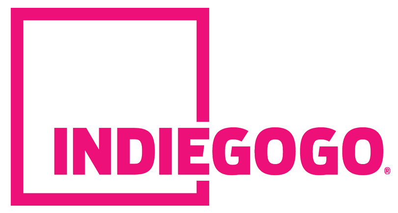 Logo of US crowdfunding site Indiegogo